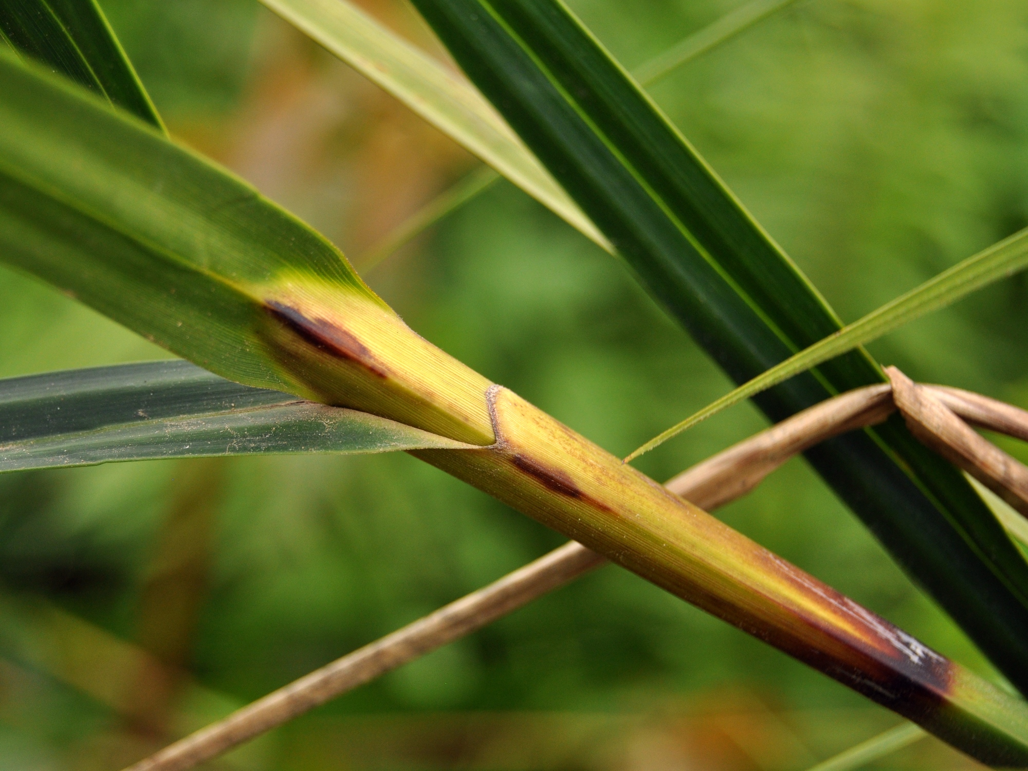 Scleria sumatrensis leaf sheath. From Rokan Hilir, Riau, Indonesia.